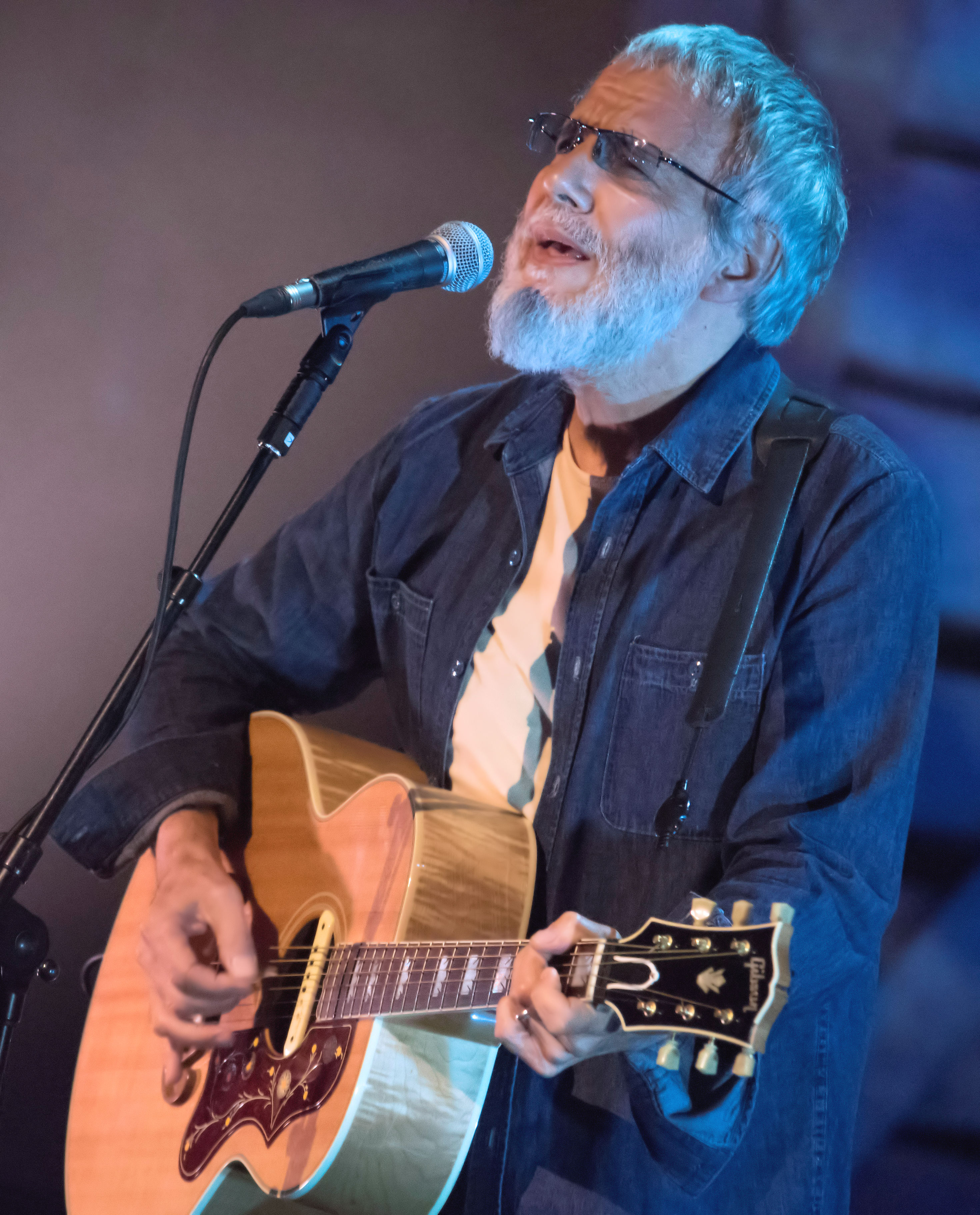 Yusuf Islam performing for BBC Radio 2 Folk Awards. This version cropped and retouched from original by Bryan Ledgard as allowed per Creative Commons Attribution 2.0 Generic (CC BY 2.0) licensing.